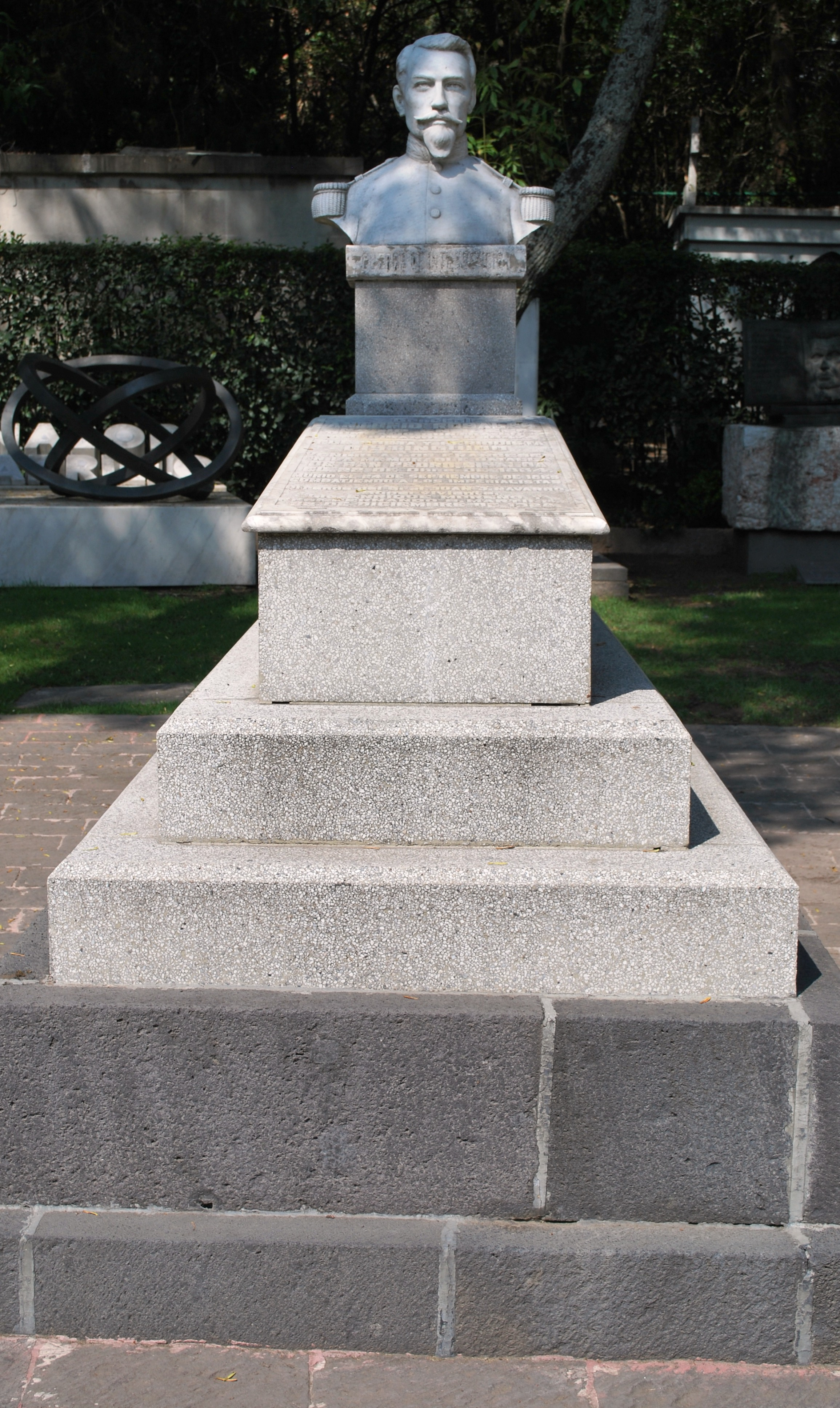 Tomb of General Antonio Rosales in the Panteon Civil de Dolores in Mexico City